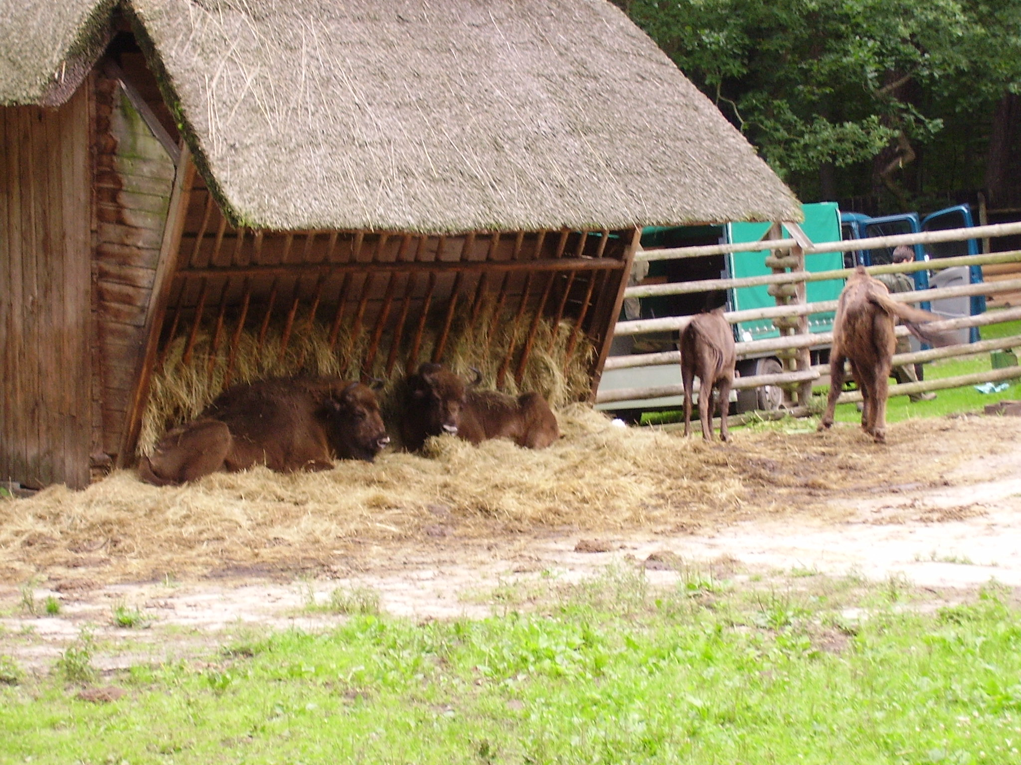 Wisent (Bison bonasus) in the Woliński National Park next to Międzyzdroje (Poland)